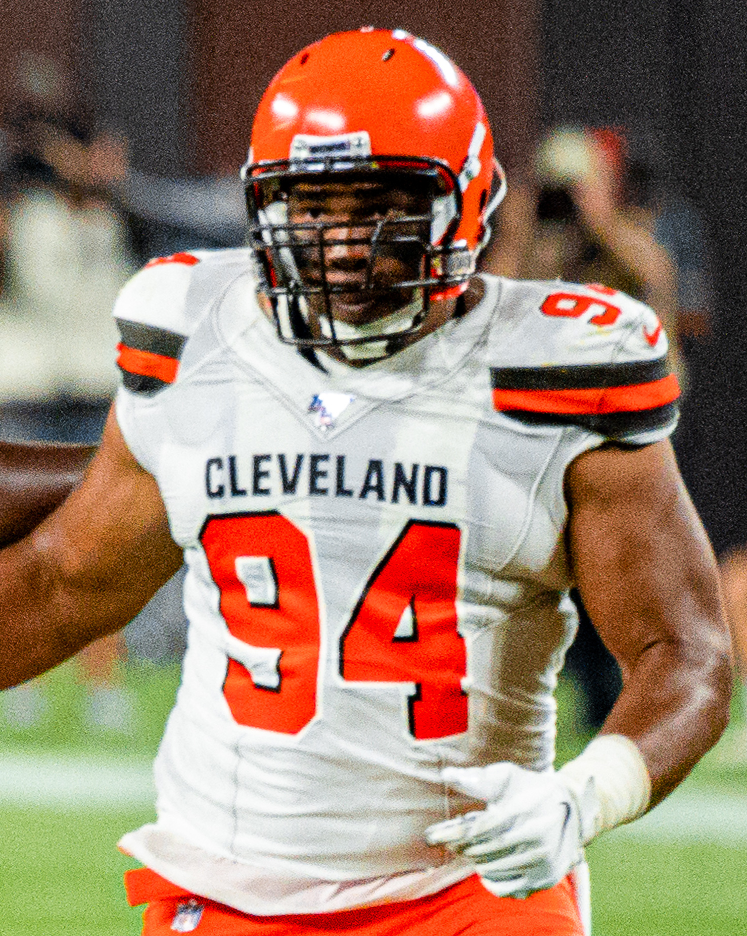 Cleveland Browns vs. Washington Redskins